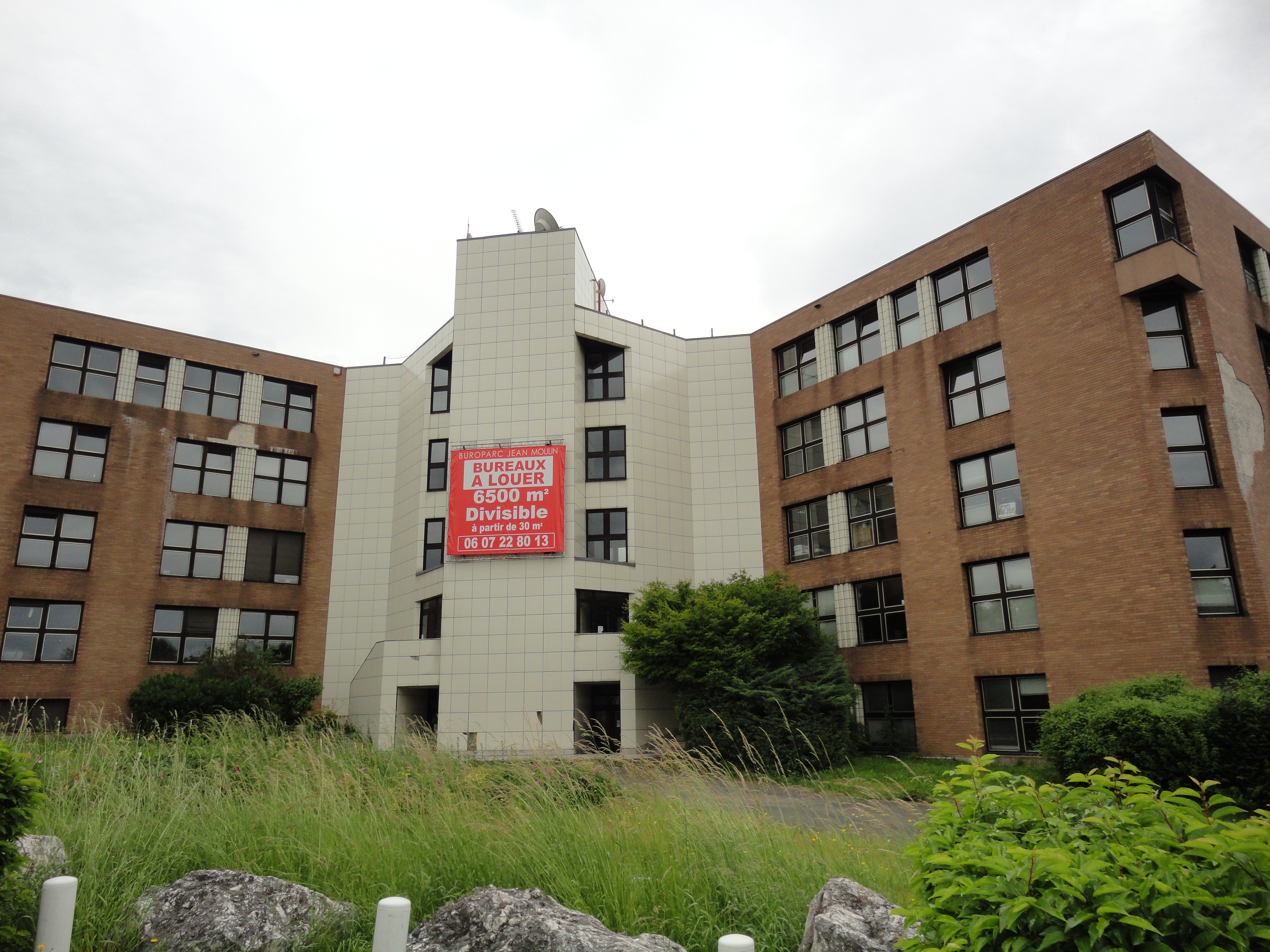 Old Groupe Envergure's headquarter